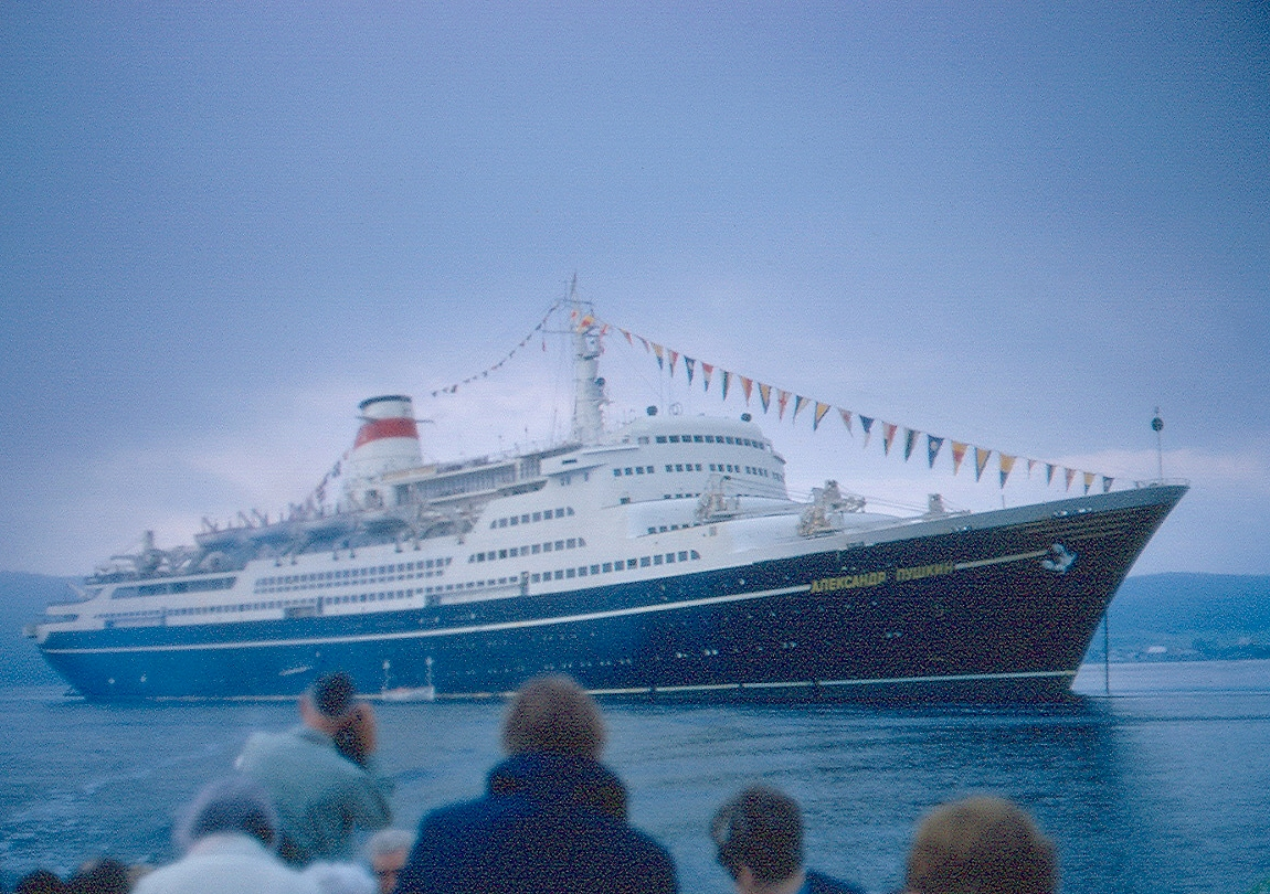 Tendering to the MS Alexandr Pushkin